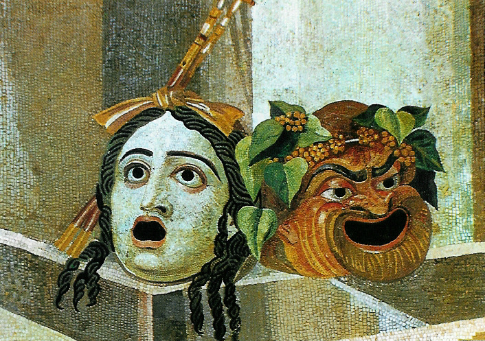 Mosaic showing theatrical masks of Tragedy and Comedy. Roman artwork, 2nd century CE.